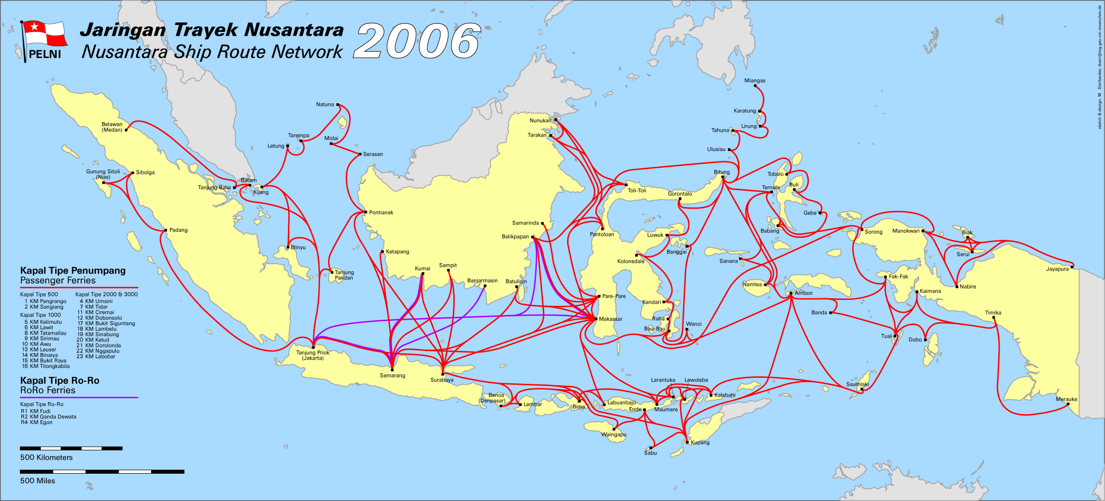 Pelni shipping (Indonesia): map of the route network 2006